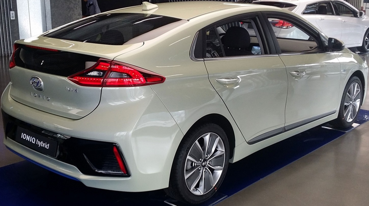 Hyundai Ioniq